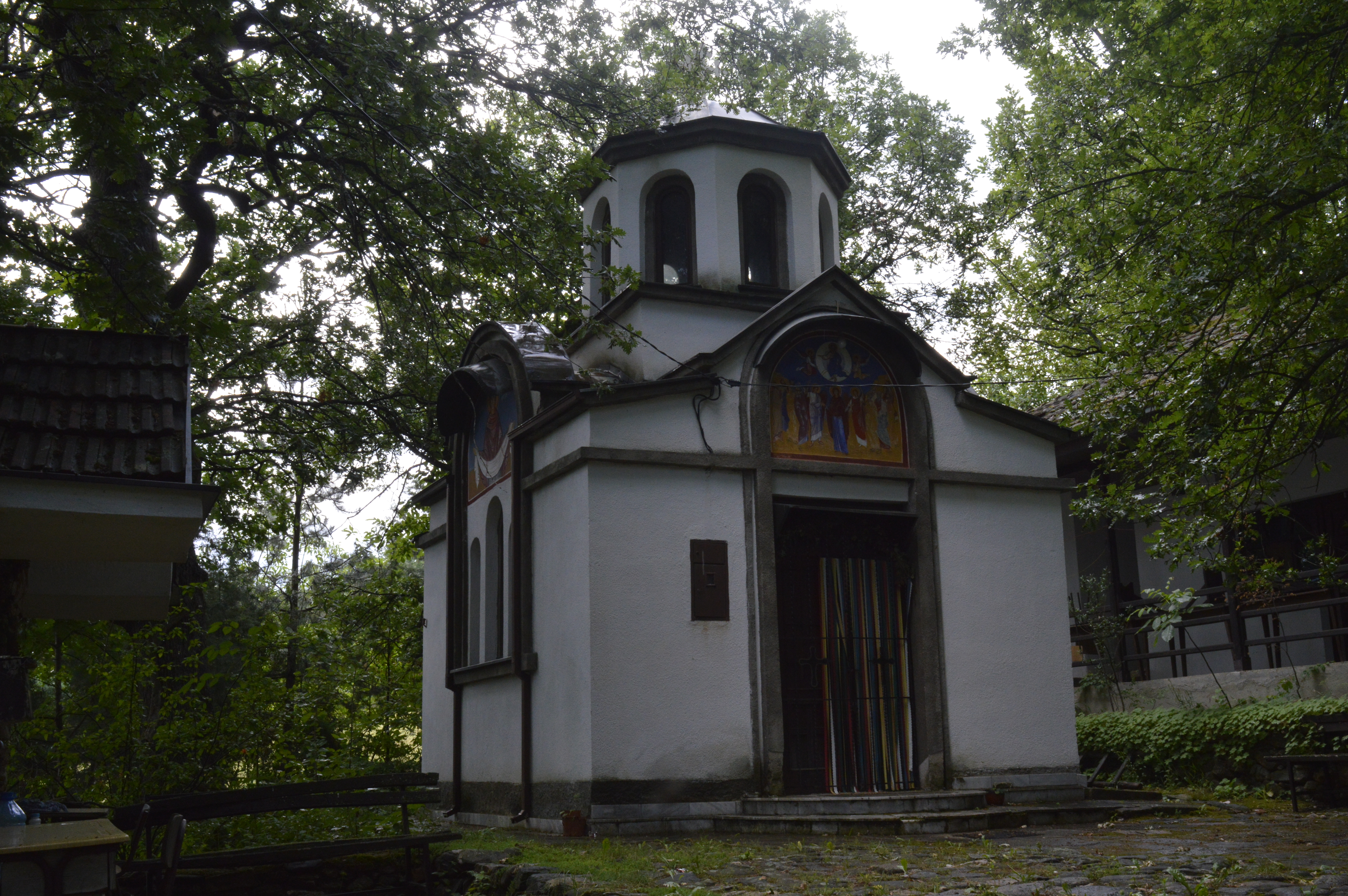 View of the Church of the Ascension of Jesus in the village Bogomila